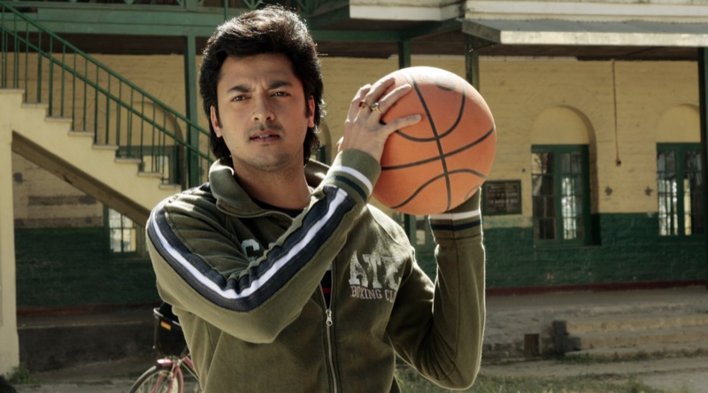 Photo of Jishu Sengupta, Bengali actor